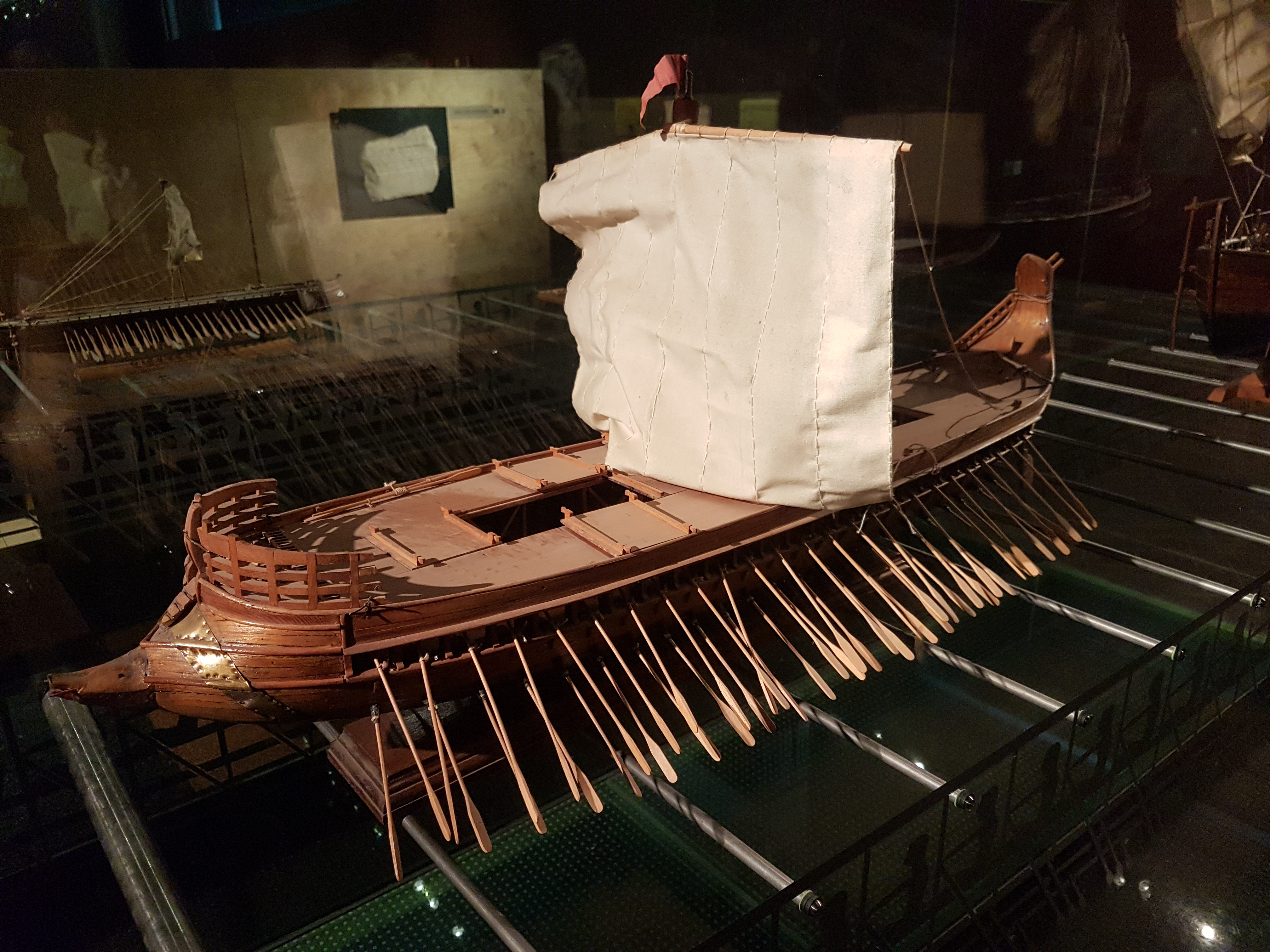 Samaina, Samos, 520-550 BC (model). Thessaloniki Technology Museum